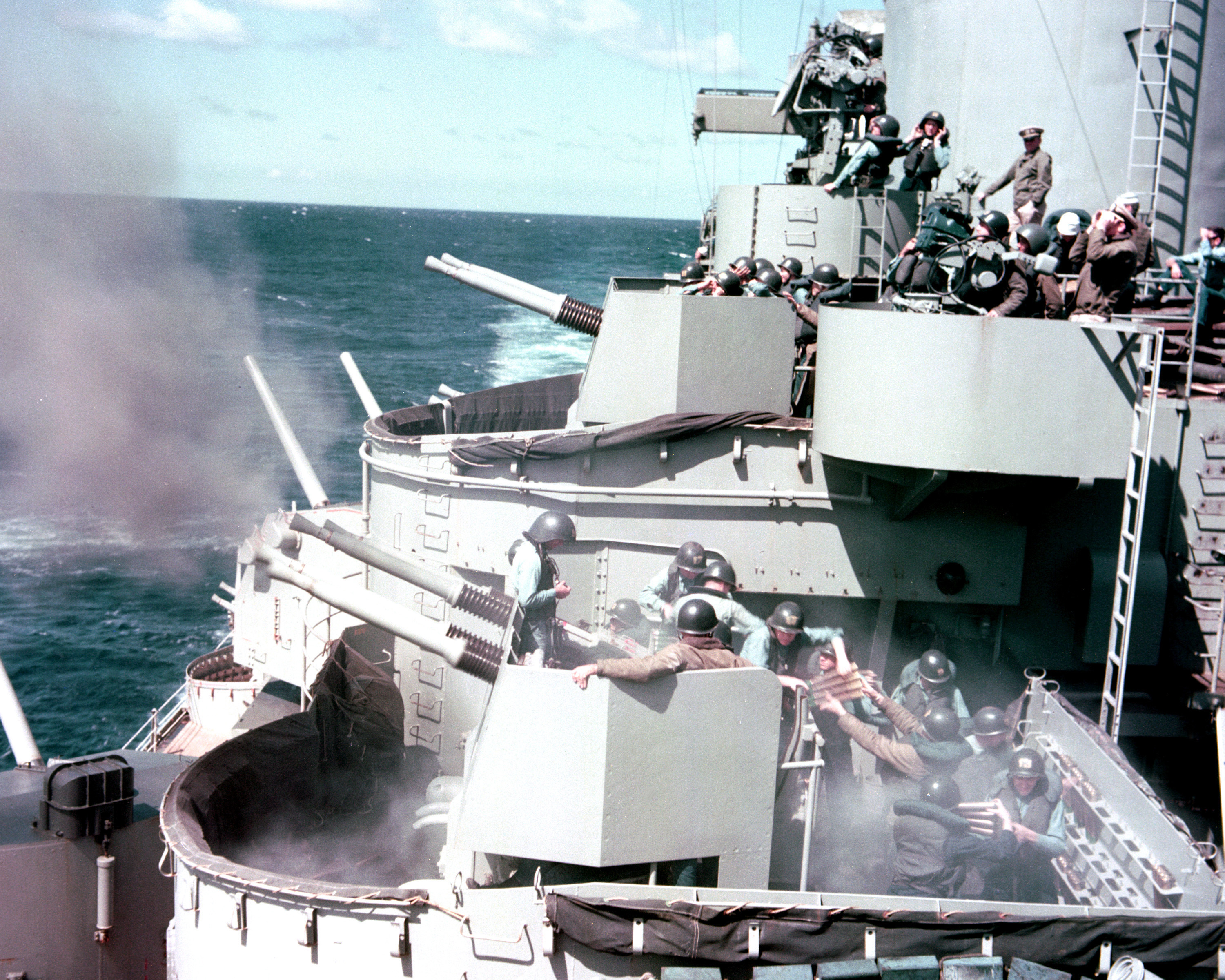 The 40 mm quadruple anti-aircraft guns fire during a practice firing aboard the U.S. battleship USS New Jersey (BB-62) off Korea on 1 April 1953.